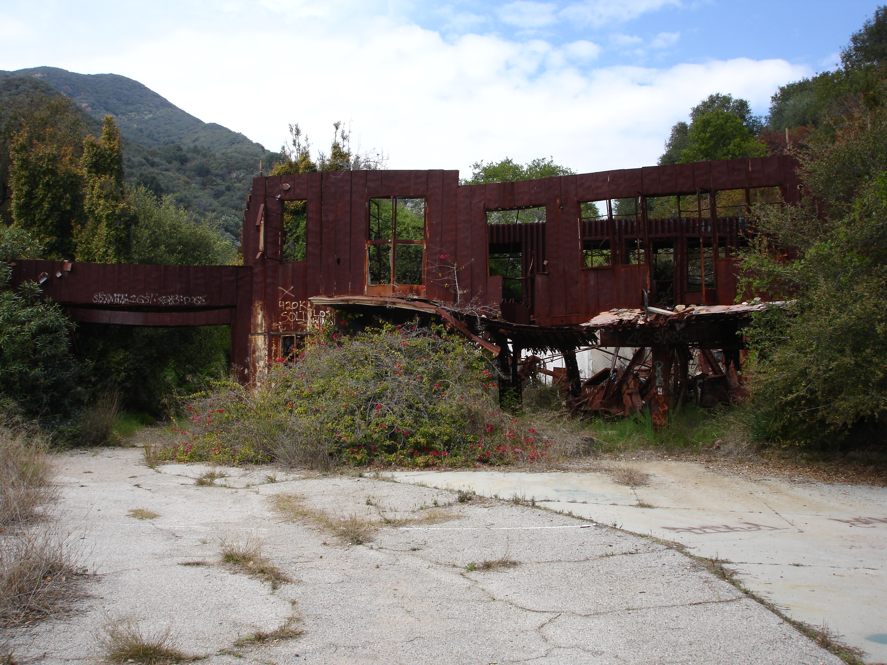 Murphy house. Before the fire this was what appeared to be a pink stucco residence with a tile roof . There was a drive through portico at the left end of the house. During the Huntington Hartford years this residence was split into four apartments where the staff of the Foundation lived on site. it was the garage and chauffeurs quarters. they were building a 22 room mansion for themselves but began to run low on money. it was then that they began to use these quarters (temporairly)